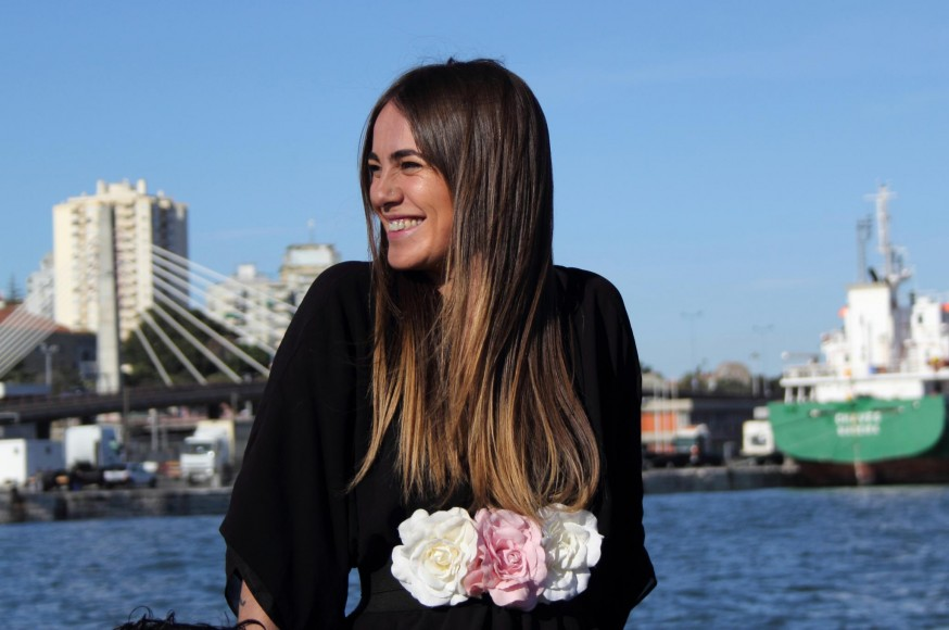 Gisela João Photo